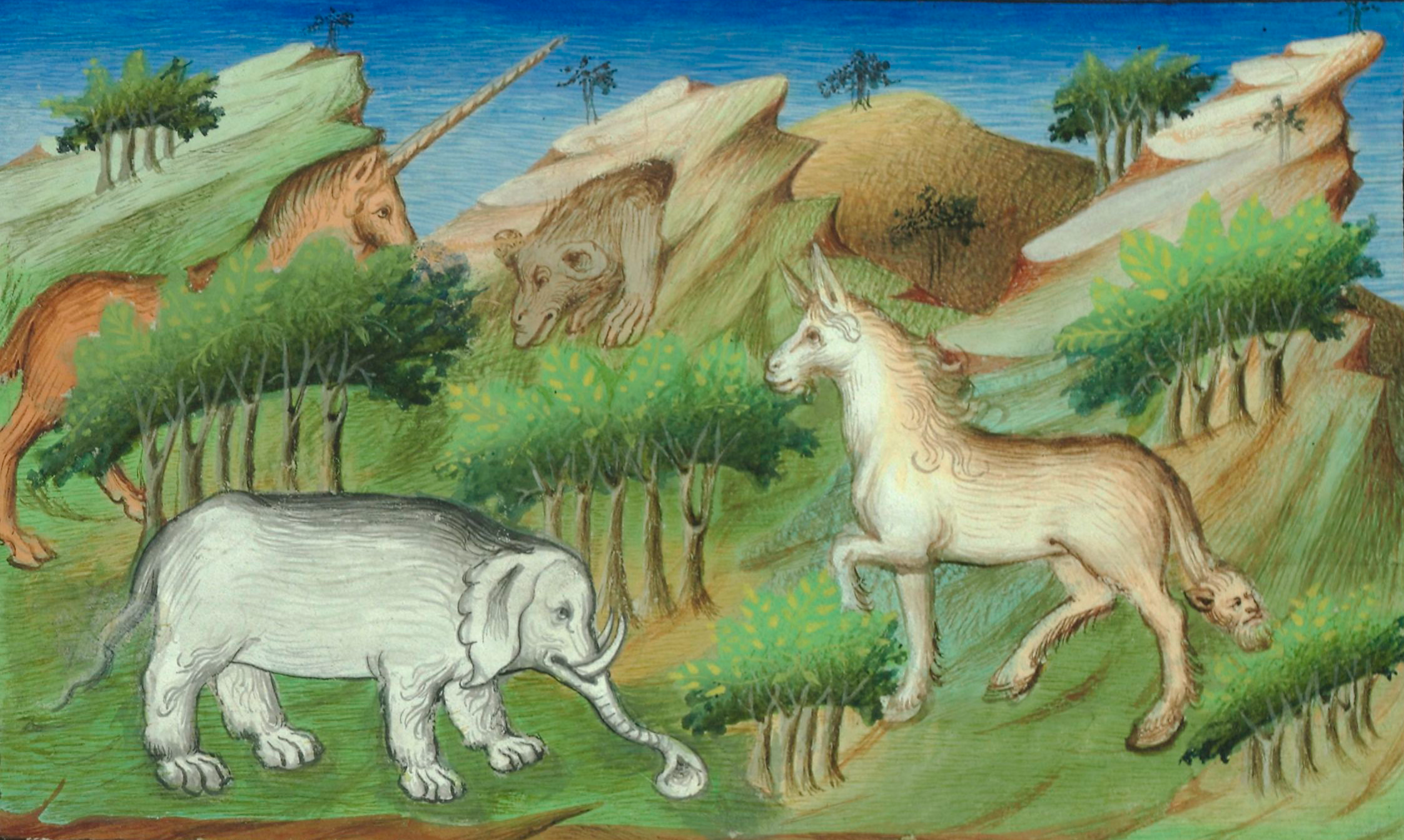 Livre de merveilles, manuscript of Paris, Bibliothèque nationale, fr. 2810, fol. 59v (detail), showing an ass, elephant, unicorn. Rubric (cropped off here) reads "comment l'en descent grant valee", and image may relate to follwing chapter "cy dist de laditte cite de damien qui a deux tours l'une d'or et l'autre d'argent".[1]